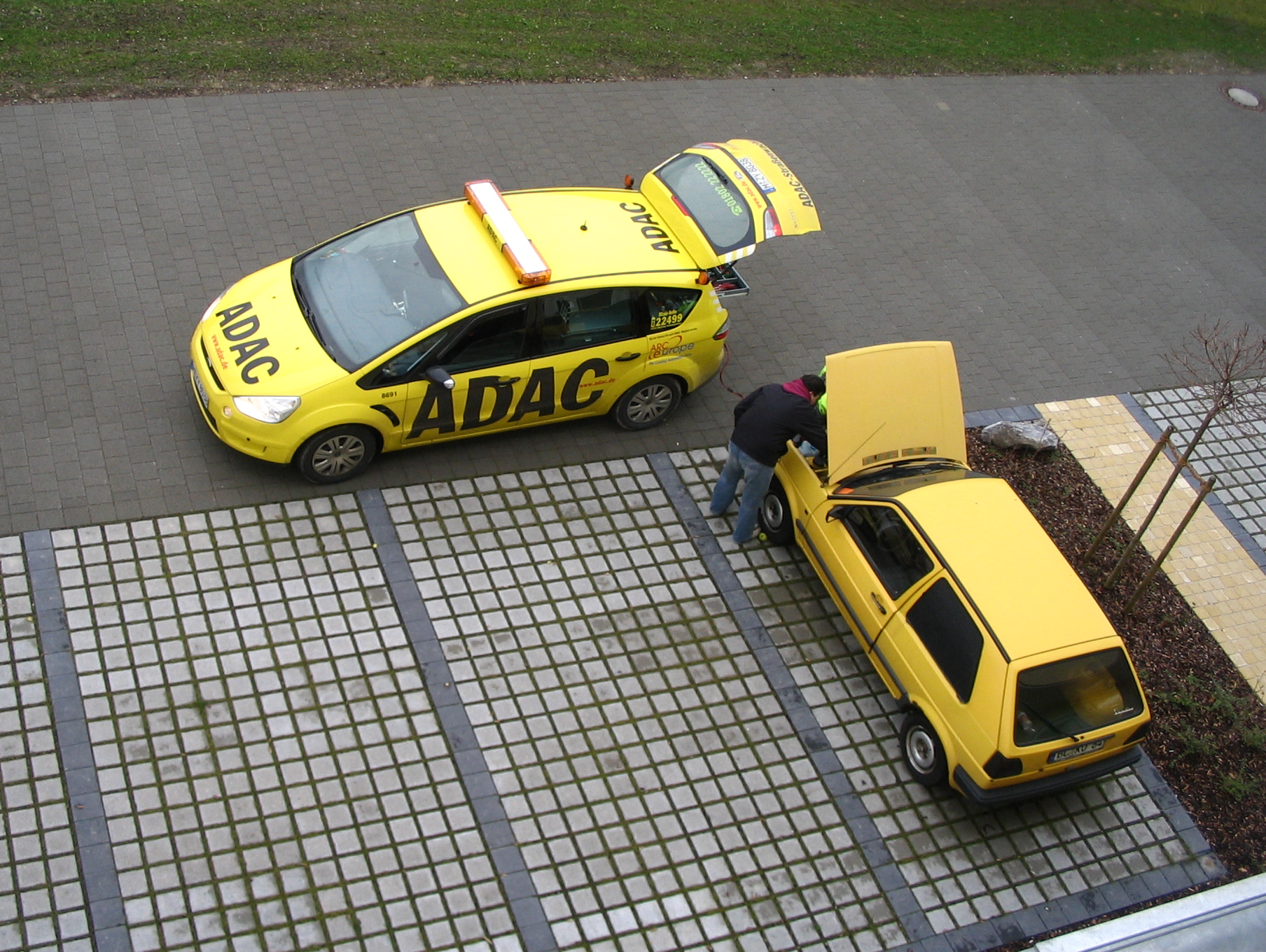 German automobile club ADAC, founded originally to help drivers with broken down cars: aid car is action